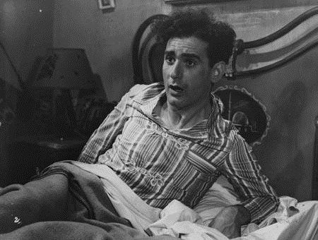 Ali Salem de Baraja- actor